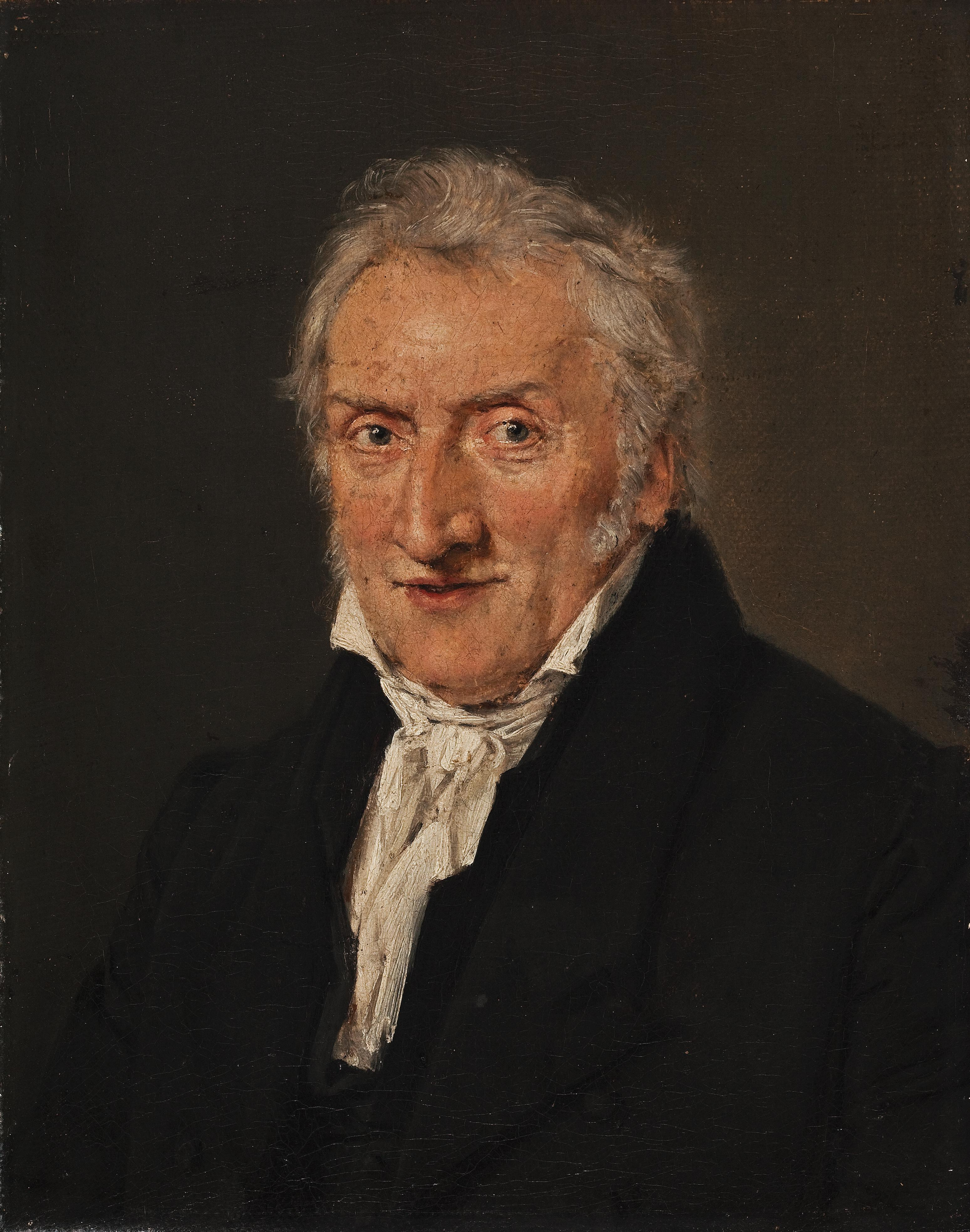 Portrait of the flower painter C.D. Fritzsch by Christian Albrecht Jensen